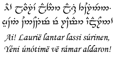 First two lines of Tolkien's poem Namarië written in tengwar script using Johan Winge's font Tengwar Annatar. This font is a freeware and it can be downloaded here.